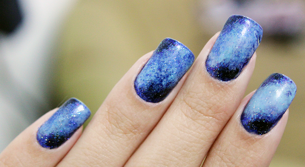 Nossa, estou faz umas quatro horas tentando postar essa foto, mas fiquei presa no twitter acompanhando o bapho da Sancion Angel! Ri muito. Mas vamos lá, Décimo nono do Desafio! SIM, eu pulei o Half-moons... não sei fazer e nem gosto dessa unha. Perdoa, tá? Não roubo mais! Sem dúvida a unha mais difícil de fazer!! Sou uma negação para qualquer nail art que não seja com plaquinha, então saiu isso. As vezes eu gostei. As vezes não. hehe @_Leleuzis